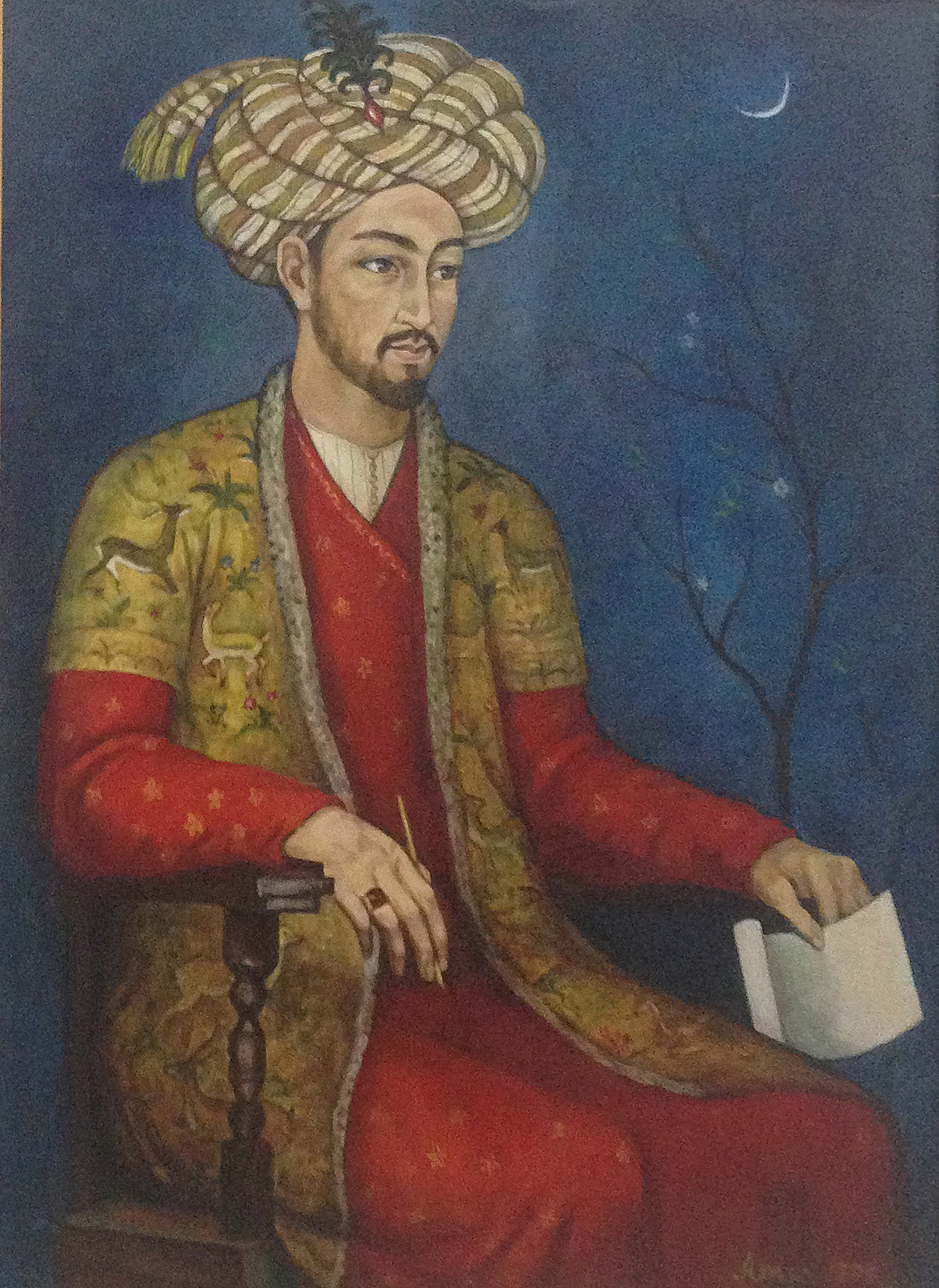 Babur Mirzo